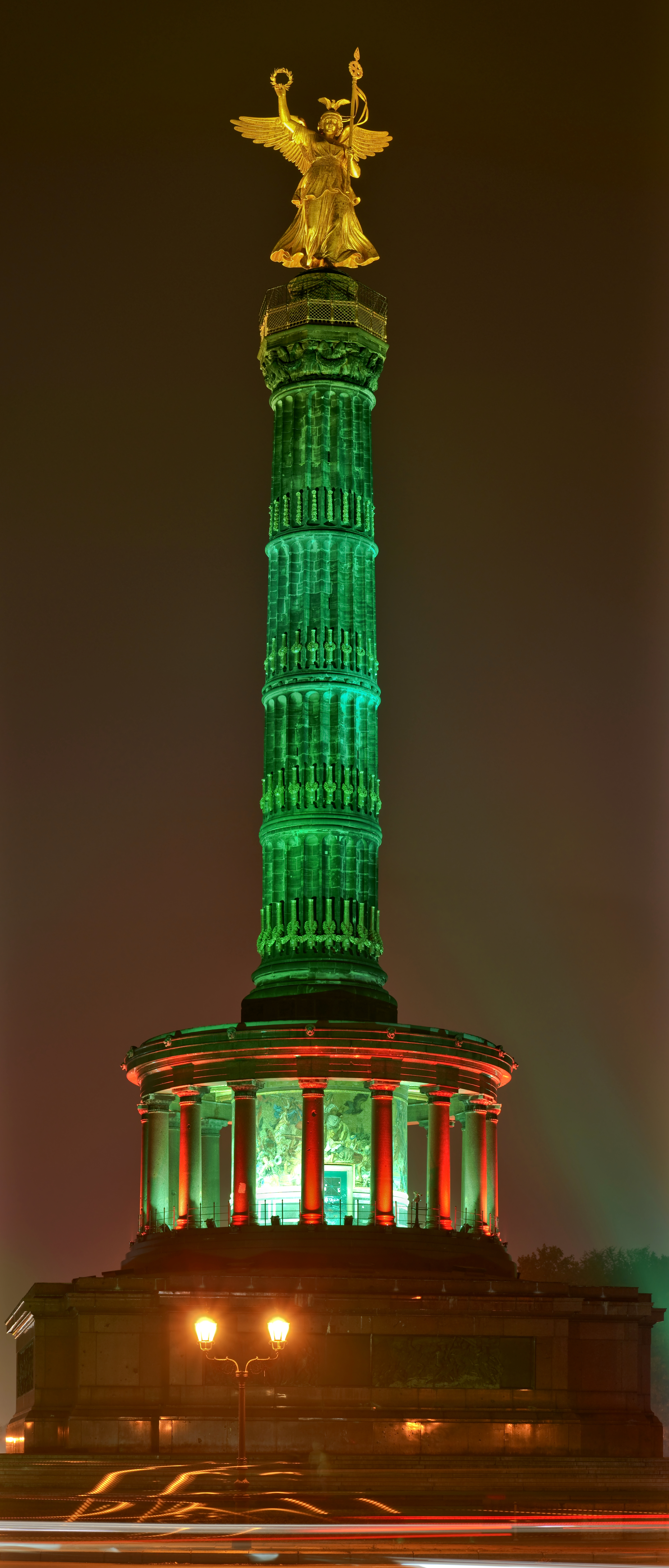 Panorama of the Berlin Victory Column. The picture was taken during the Festival of Lights 2009 in Berlin.